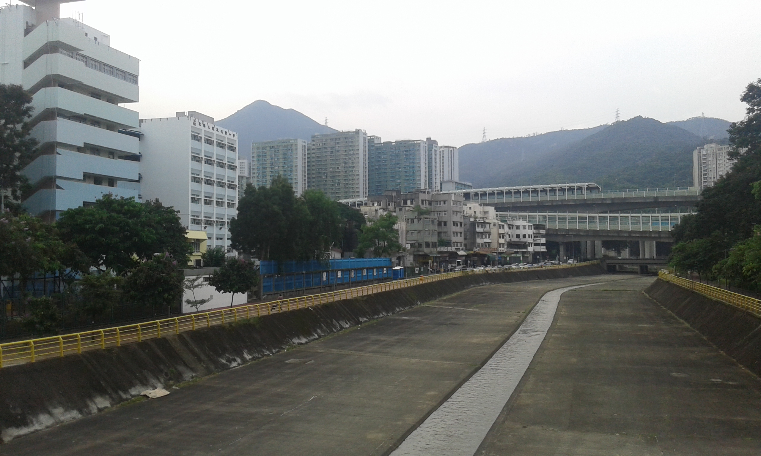 Tai Wai Nullah, Tai Wai, Sha Tin District, Hong Kong.